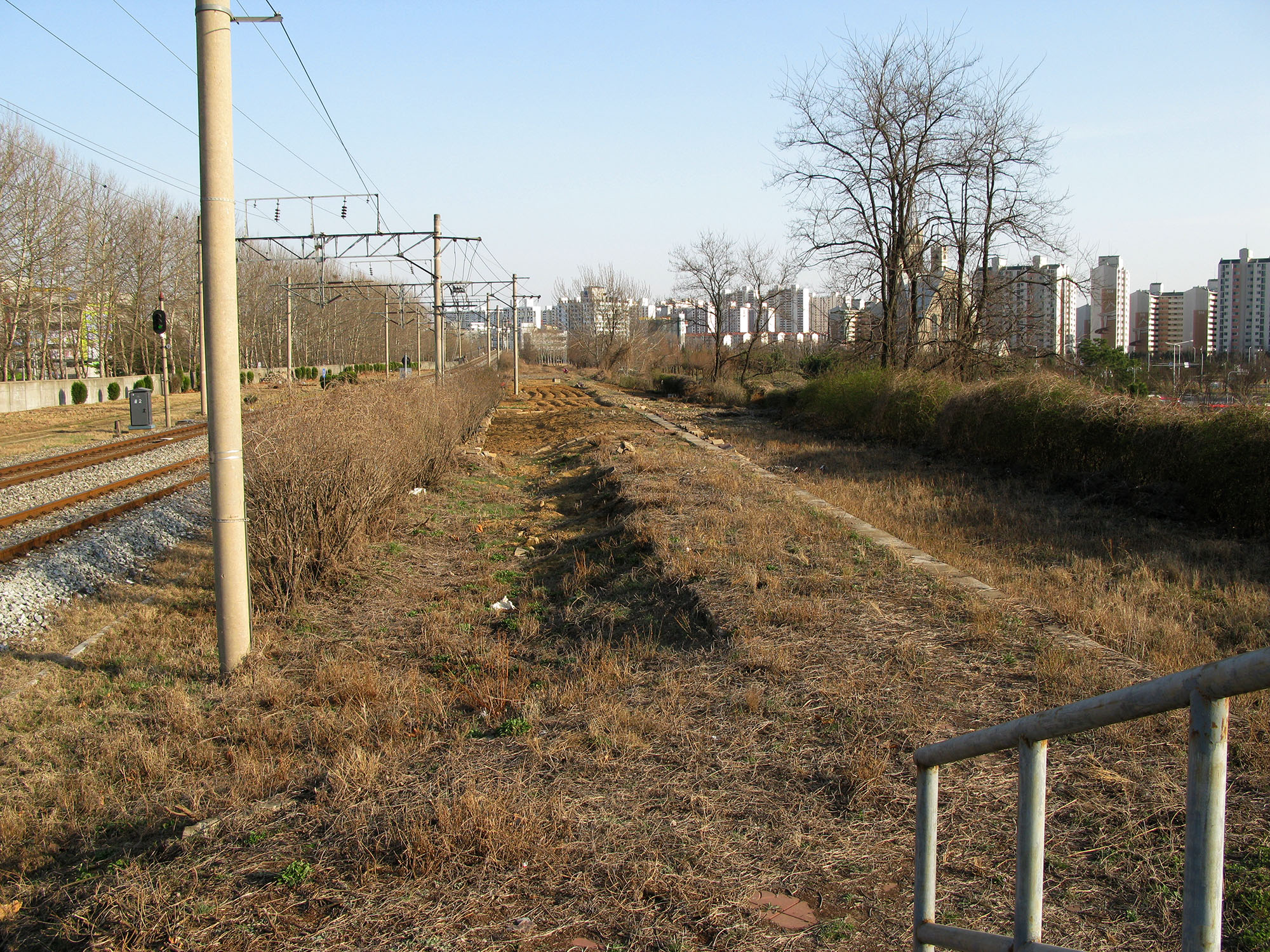 Suin Line Hanyang University at Ansan Station Platform